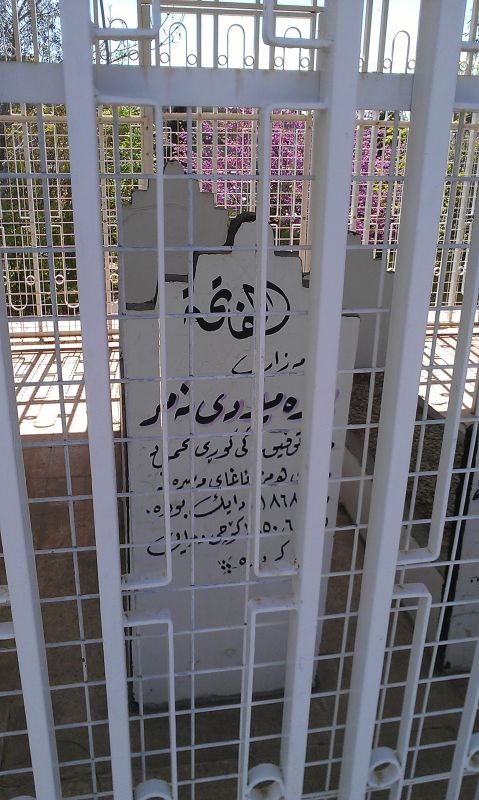 Tomb of Kurdish poet Piramerd in Sulaymaniyah, Kurdistan